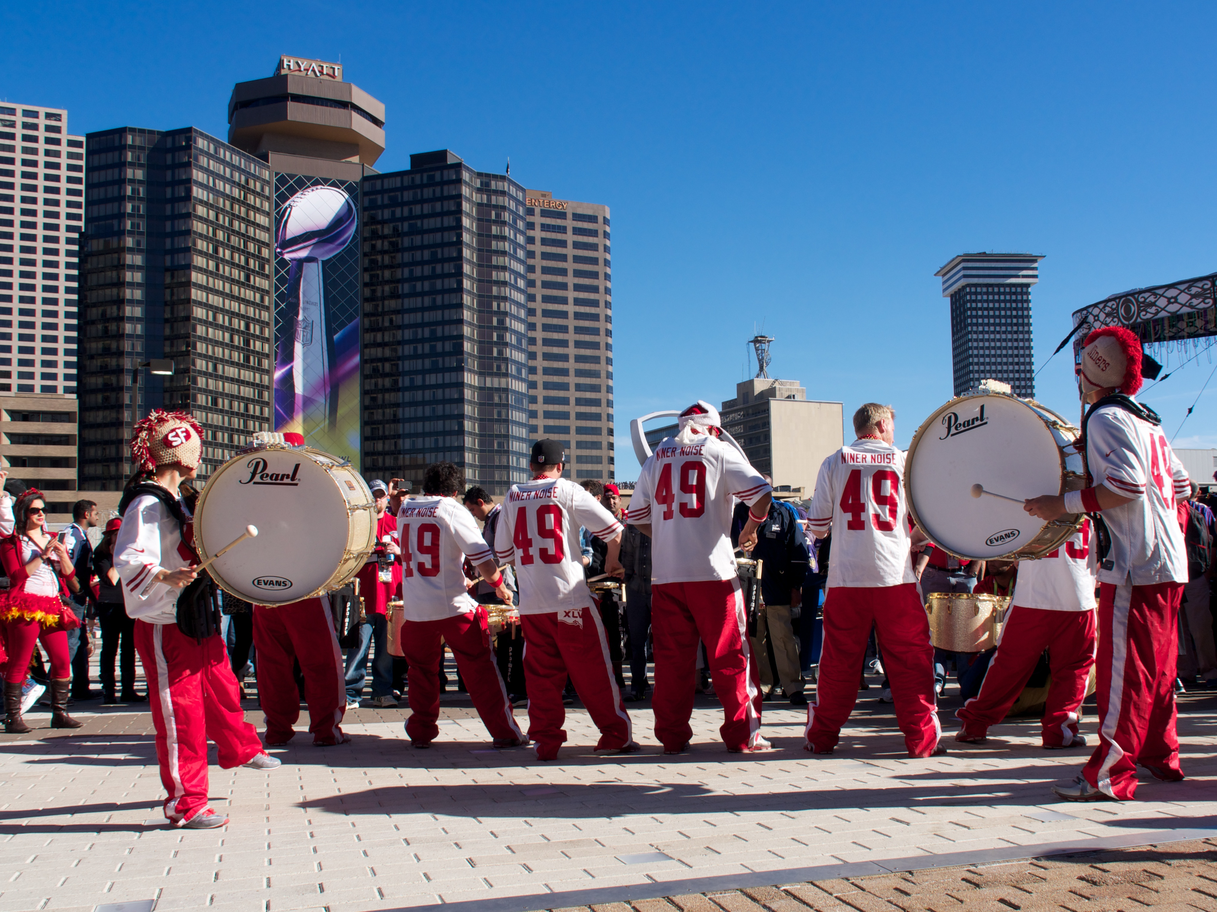 Outside of the Superdome before Super Bowl XLVII, this band suddenly started playing and all of the 49er fans suddenly appeared.... I could barely get my camera past security, and somehow these guys got these drums through no problem?